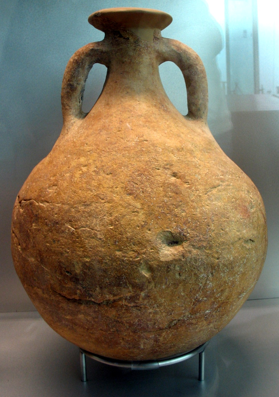 Betic amphora for oil. 2nd century. Escombreras submarine archaeological site (Cartagena, Murcia, Spain). National Museum of Underwater Archaeology-ARQVA (Cartagena).